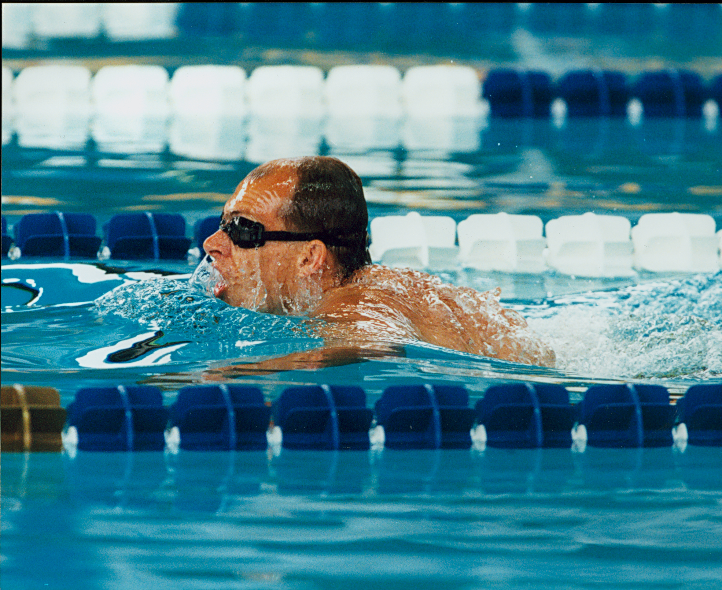 Australian Paralympian Kingsley Bugarin competes at the 1996 Summer Paralympic Games